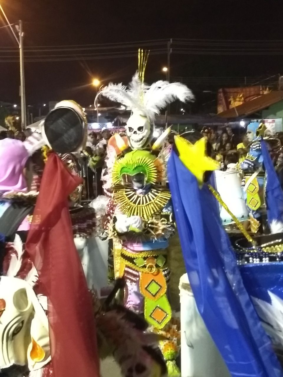 Originais do Ritmo